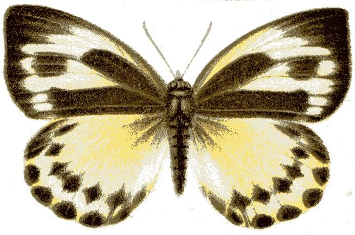 SeitzFaunaAfricana Dixeia capricornus (Ward, 1871)